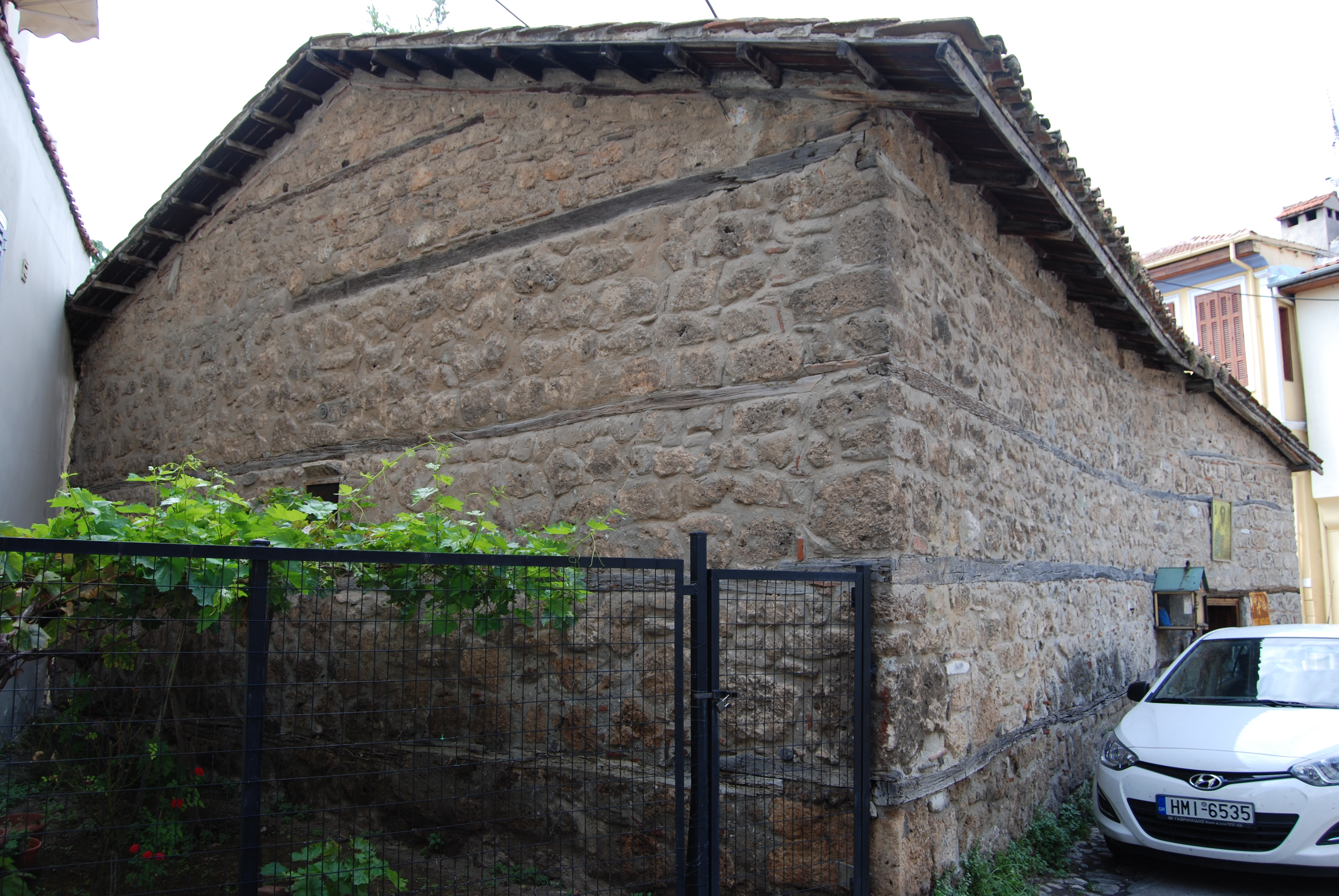 Panagia Evangelistrias, Ber